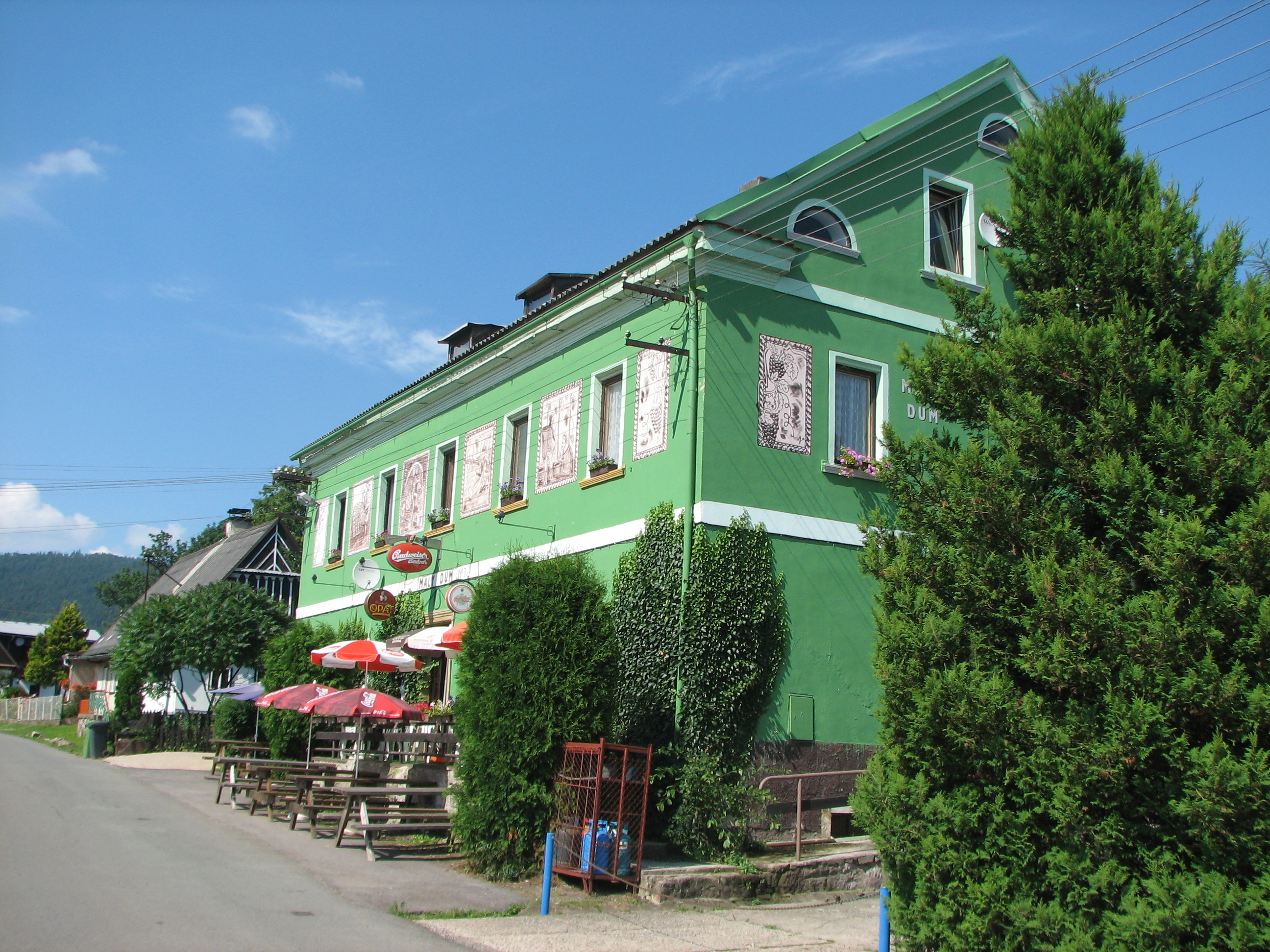 Family hotel in Ruprechtice